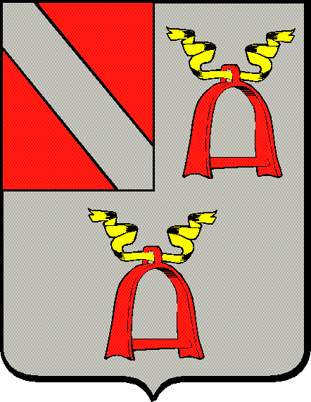 Blason Helecine